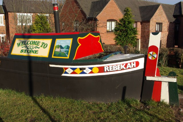 Rebekah at Stone This curious narrowboat mock-up greets drivers heading into the town on the A520. It is an appropriate symbol; Stone has long had a close association with the Trent & Mersey Canal.